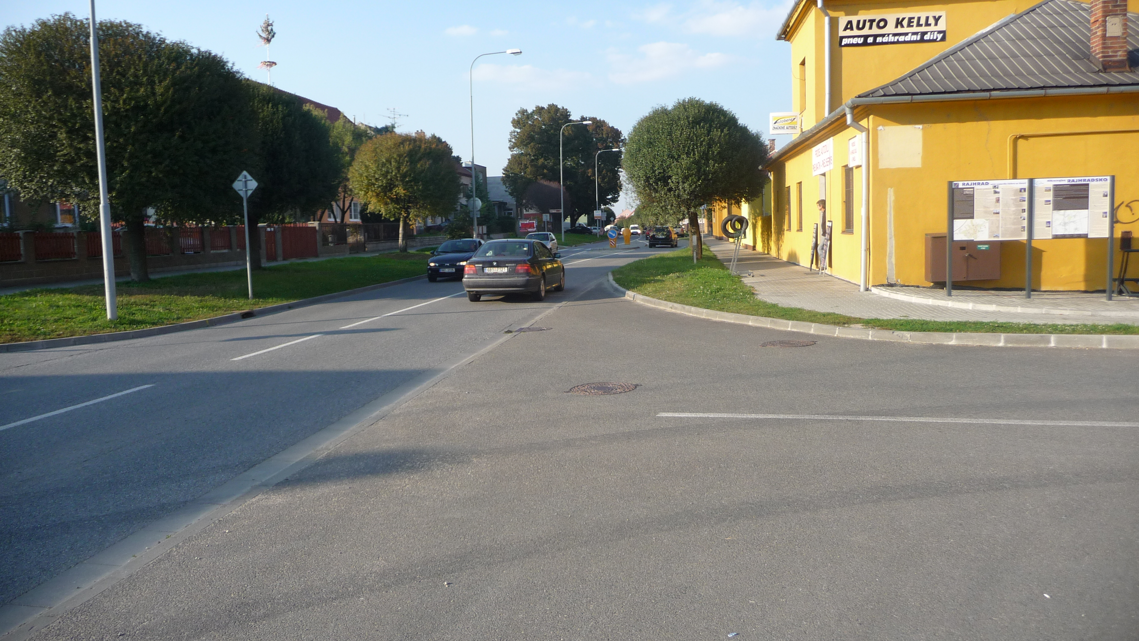 Rajhrad from train station (road 425)